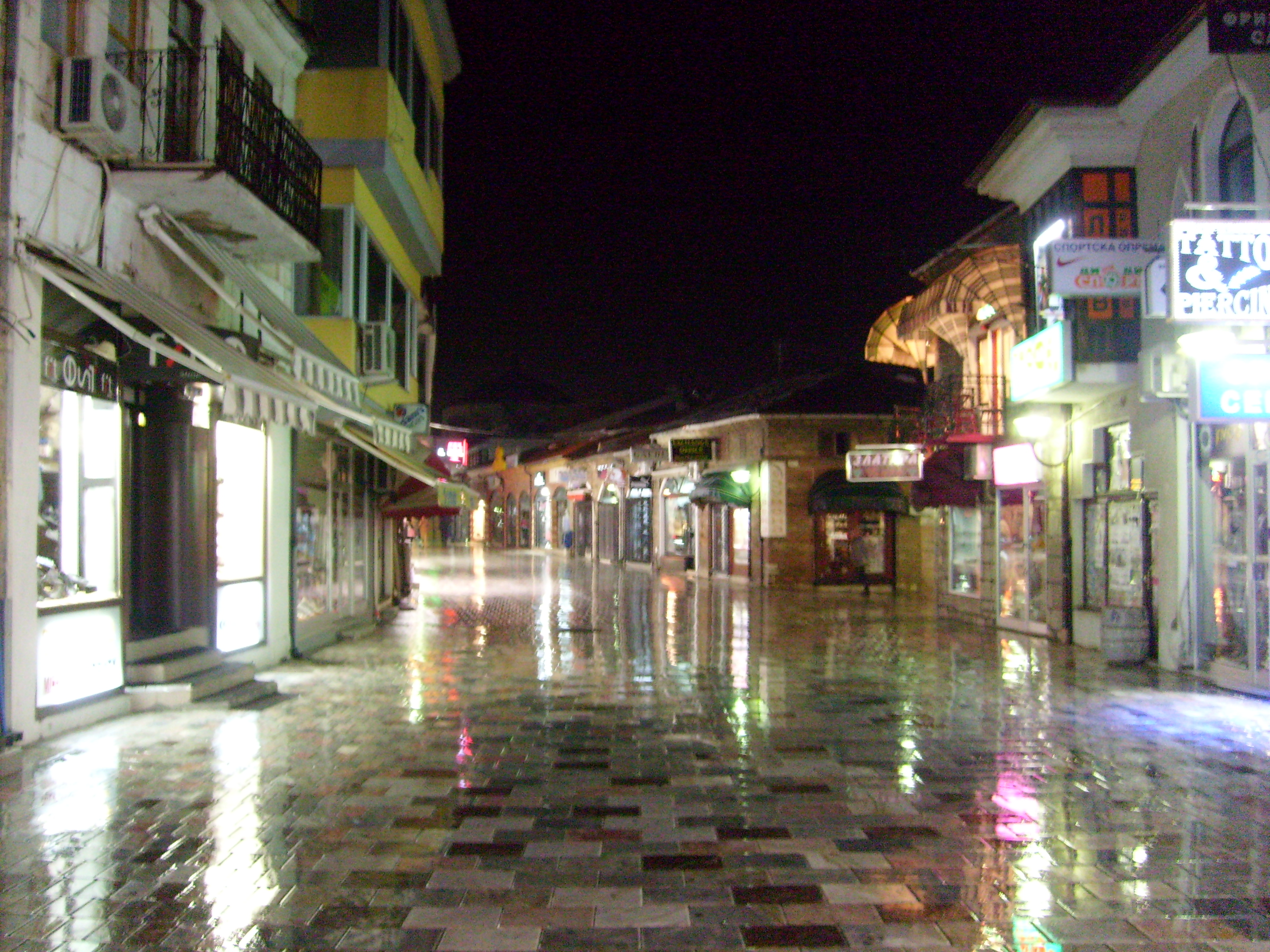 Ohrid / Macedonia: Bazaar.